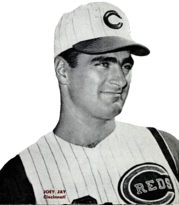 Cincinnati Reds pitcher Joey Jay in a 1962 issue of Baseball Digest.